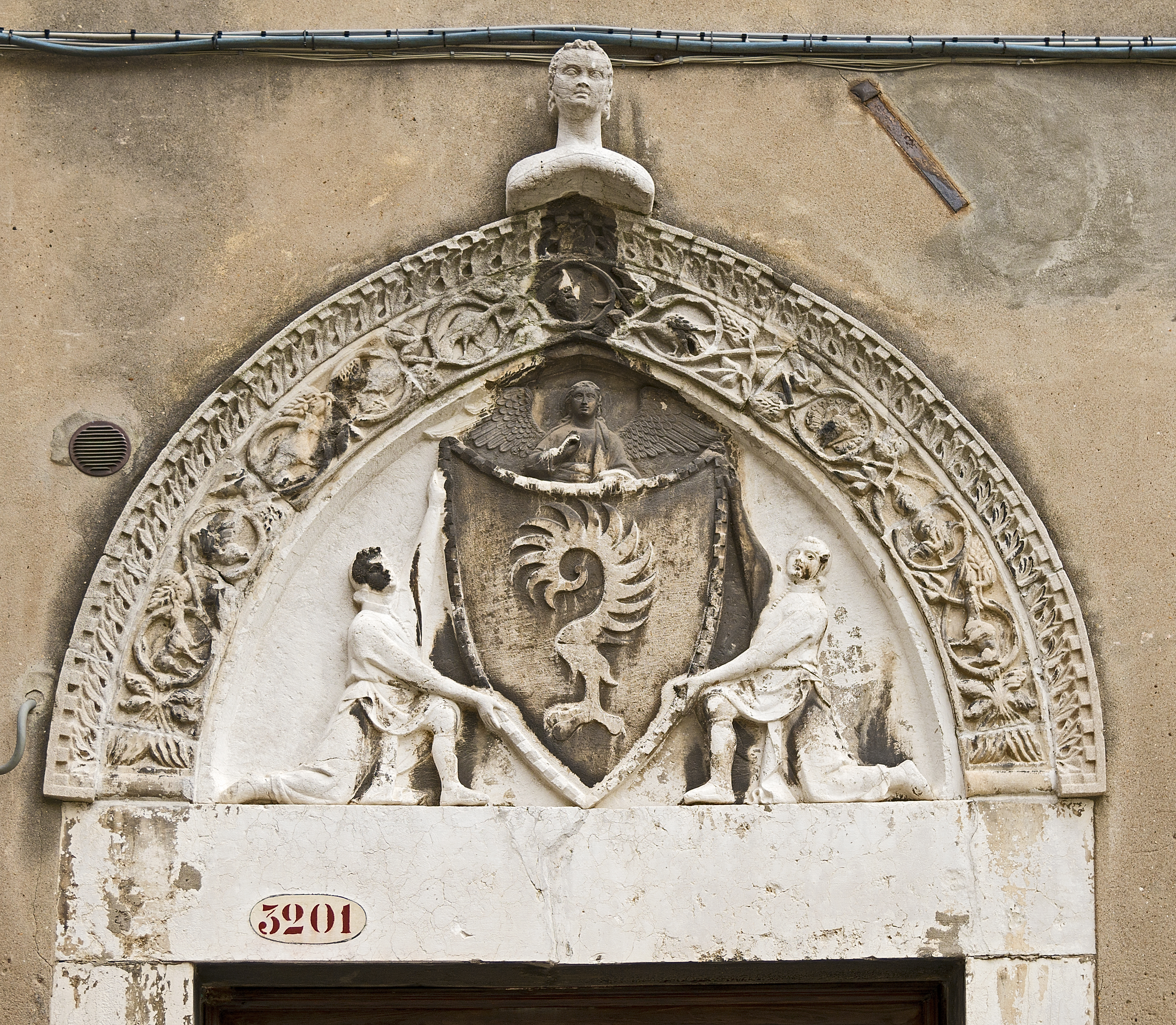 Palazzo Malipiero Venice. Malipiero's of Venice family Arms.